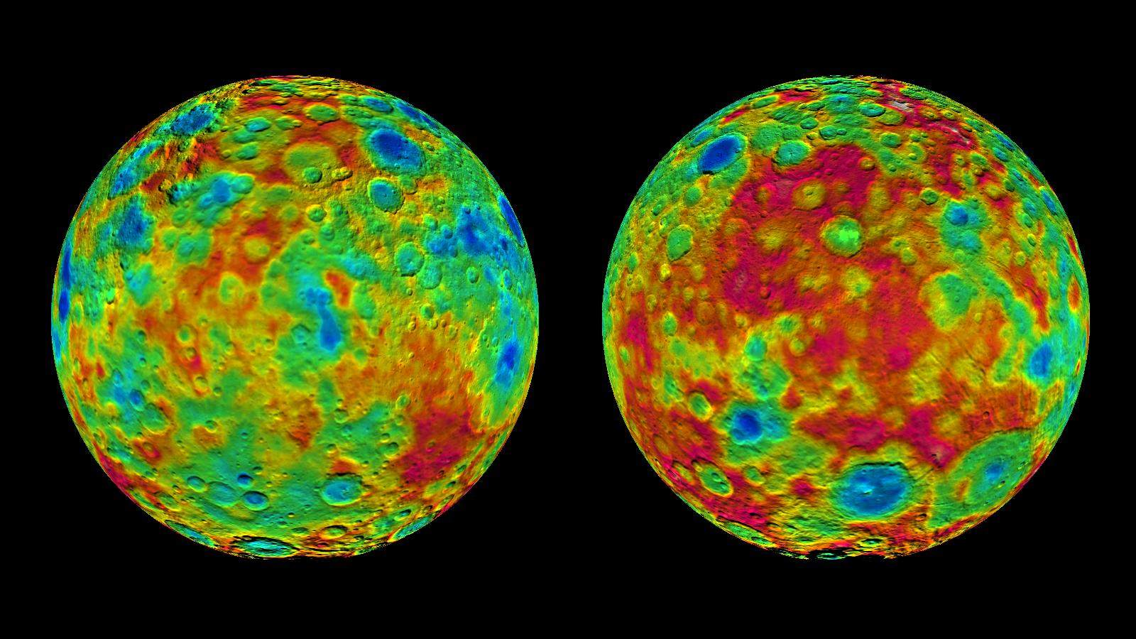 PIA19607: Topographic Maps of Ceres' East and West Hemispheres This pair of images shows color-coded maps from NASA's Dawn mission, revealing the highs and lows of topography on the surface of dwarf planet Ceres. The map at left is centered on terrain at 60 degrees east longitude; the map at right is centered on 240 degrees east longitude. The color scale extends about 5 miles (7.5 kilometers) below the surface in indigo to 5 miles (7.5 kilometers) above the surface in red. The topographic map was constructed from analyzing images from Dawn's framing camera taken from varying sun and viewing angles. The map was combined with an image mosaic of Ceres and projected as an orthographic projection. The well-known bright spots in the center of Ceres northern hemisphere in the image at right retain their bright appearance, although they are color-coded in the same green elevation of the crater floor in which they sit. Note: The elevation scale used for this topographic map product differs slightly from the scale used to create PIA19605. These are preliminary data products; the Dawn science team may revisit the data to standardize the scale at a later date. PIA19605. These are preliminary data products; the Dawn science team may revisit the data to standardize the scale at a later date. Dawn's mission is managed by JPL for NASA's Science Mission Directorate in Washington. Dawn is a project of the directorate's Discovery Program, managed by NASA's Marshall Space Flight Center in Huntsville, Alabama. UCLA is responsible for overall Dawn mission science. Orbital ATK, Inc., in Dulles, Virginia, designed and built the spacecraft. The German Aerospace Center, the Max Planck Institute for Solar System Research, the Italian Space Agency and the Italian National Astrophysical Institute are international partners on the mission team. For a complete list of acknowledgments, For more information about the Dawn mission, visit